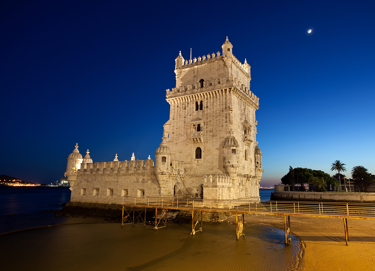 Belém Tower (Portuguese: Torre de Belém) is a fortified tower located in the Belém district. It is an UNESCO World Heritage Site because of the significant role it played in the Portuguese maritime discoveries of the era of the Age of Discoveries.